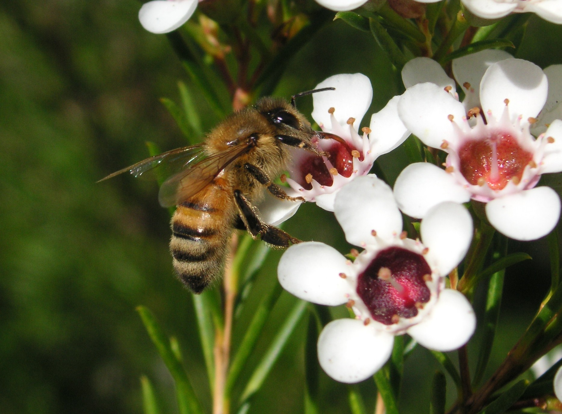 Bee collecting nectar from Geraldton Wax blossom, coastal NSW Australia